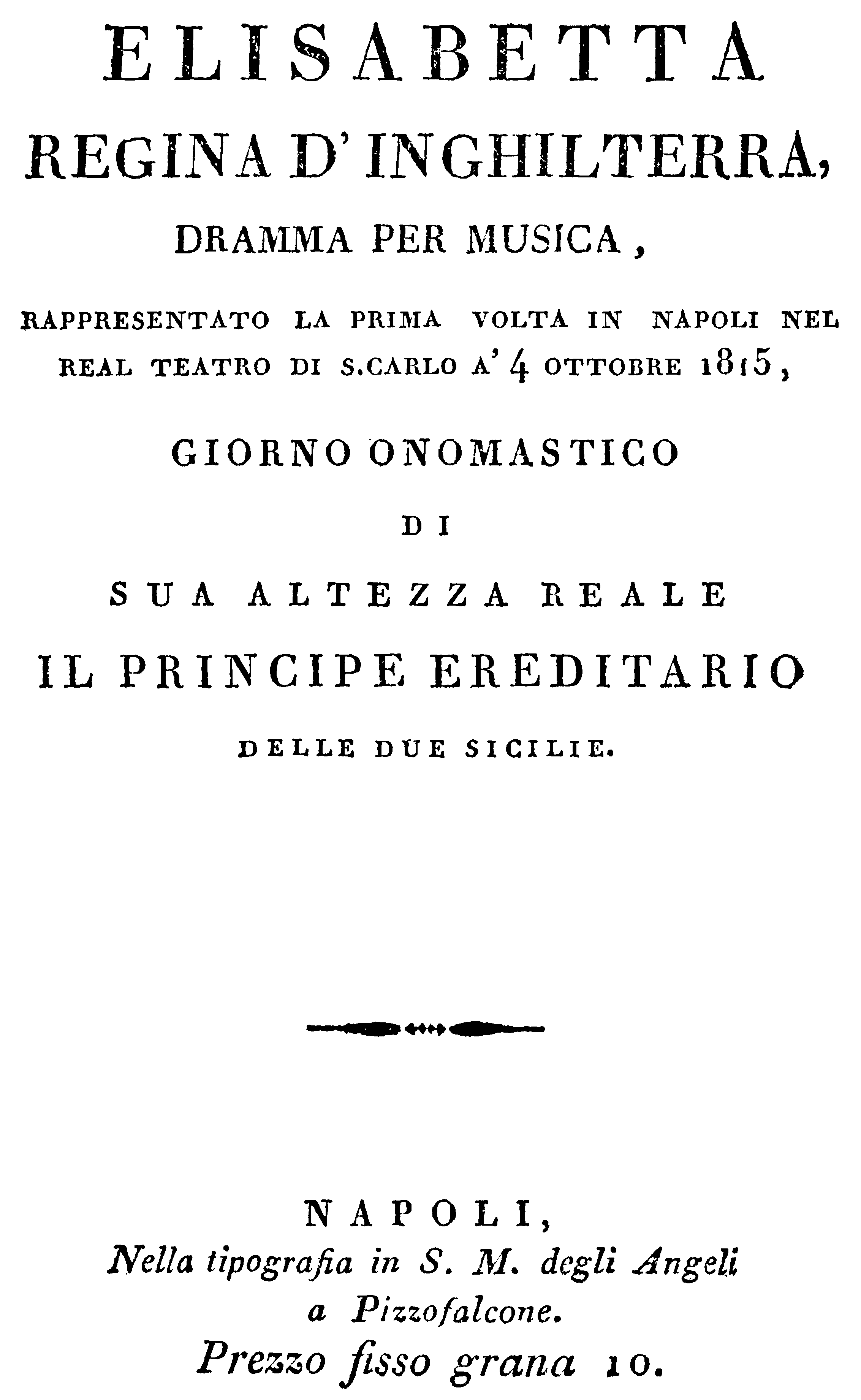 Gioachino Rossini - Elisabetta regina d’Inghilterra - titlepage of the libretto - Naples 1815